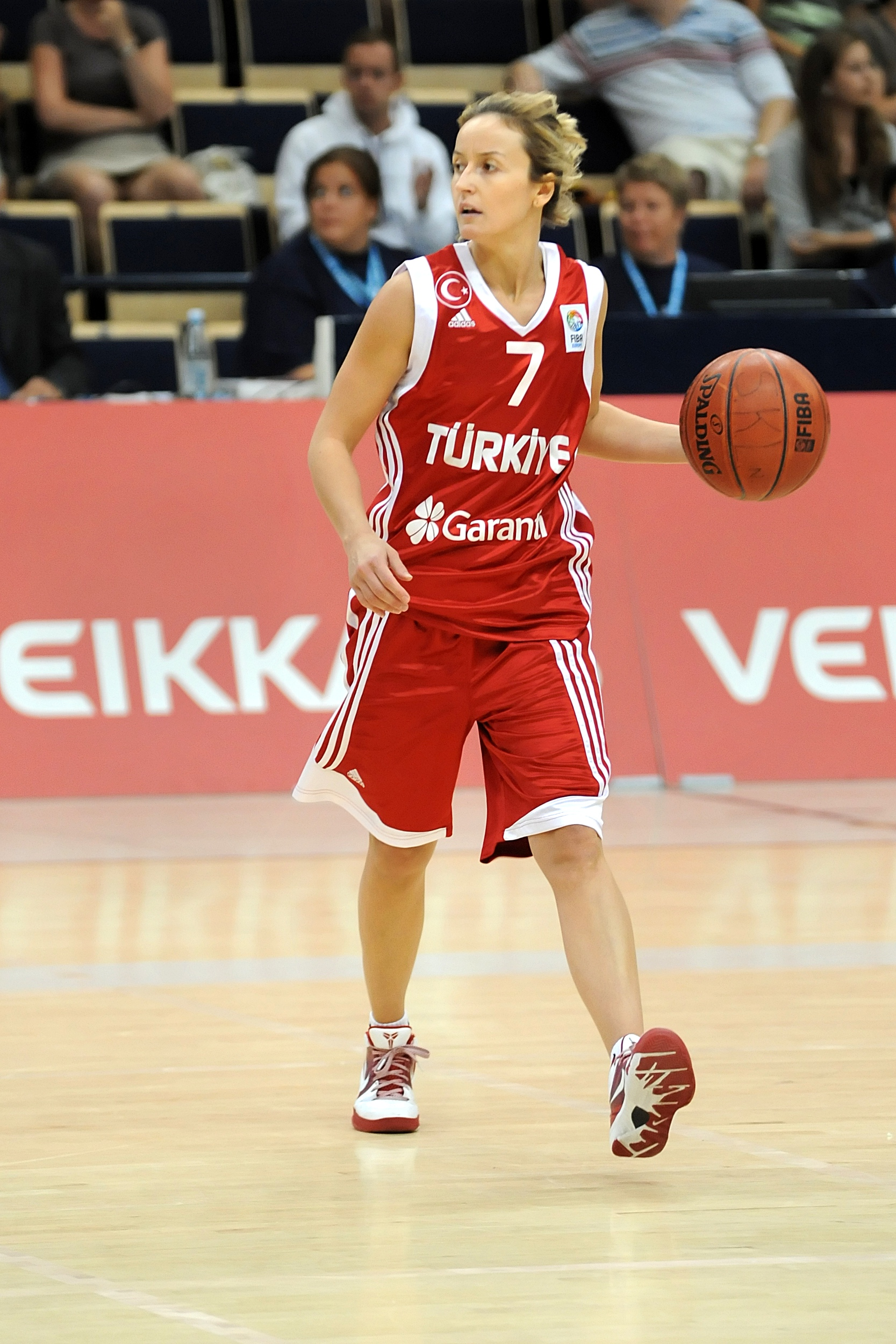 Turkish basketball player Nilay Yiğit in the game against Finland.